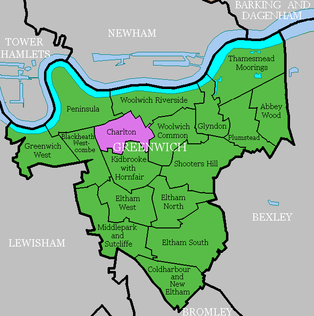 Wards of the Royal Borough of Greenwich (green). In pink: the ward Charlton. Original file uploaded by Carlwev at English Wikipedia, edited by Kleon3.